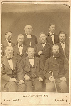 Some of the male teachers of Jyväskylän seminaari (Jyväskylä, Finland) in 1878. First row from left, music lector E.A Hagfors, director Karl Gabriel Leinberg, drawing and crafts lector Johan Rafael Hårdh, back row from left mathemathics lector Karl Johan Högman, finnish language lector Jaako Länkelä, religion teacher Nestor Järvinen, pedagogics and history lector Olai Wallin physical education teacher (later co-founder of Weilin+Göös) Karl Gustaf Göös and natural sciences lector (the husband of Minna Canth) Johan Ferdinand Canth.